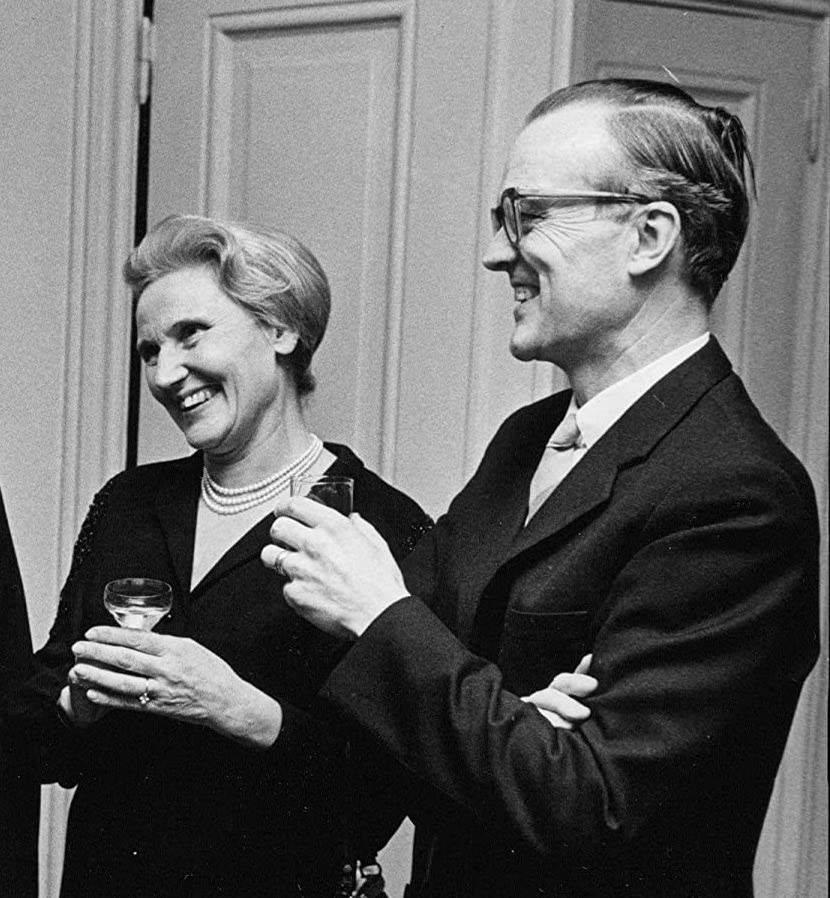 Vintage photo of Elfride and Prof. Gustav Korlén at the Swedish-German Association's annual meeting